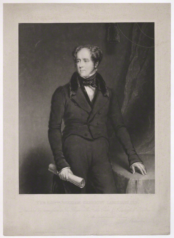 Mezzotint of William Lascelles by William Overend Geller, published by Ackermann & Co, published by Nicholls & Stansfield, after William Keighley Briggs